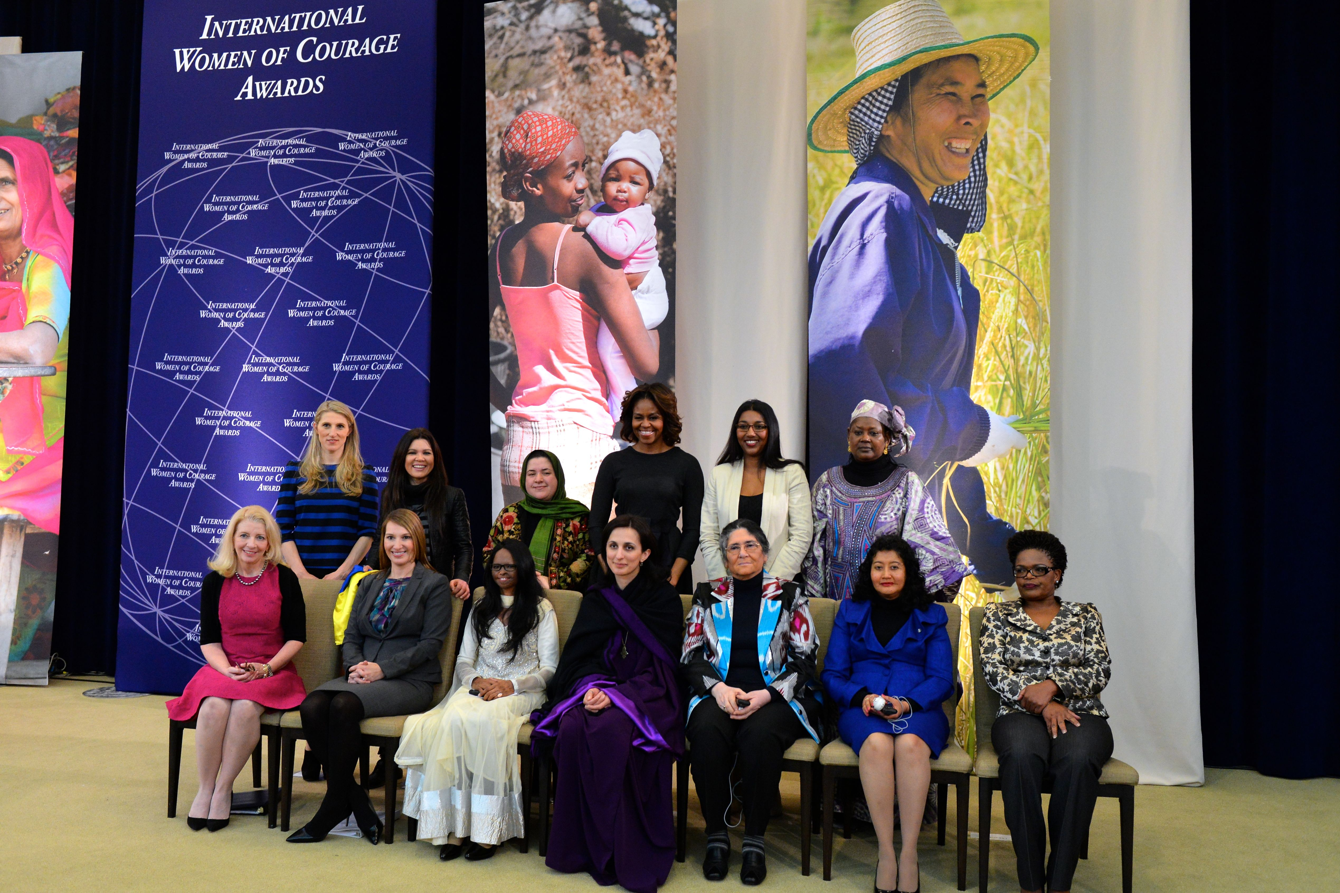 First Lady Michelle Obama, Deputy Secretary Heather Higginbottom, and U.S. Ambassador-at-Large for Global Women's Issues Catherine Russell pose for a photo with the 2014 Secretary of State’s International Women of Courage Awardees at the U.S. Department of State in Washington, D.C., on March 4, 2014. [State Department photo/ Public Domain]